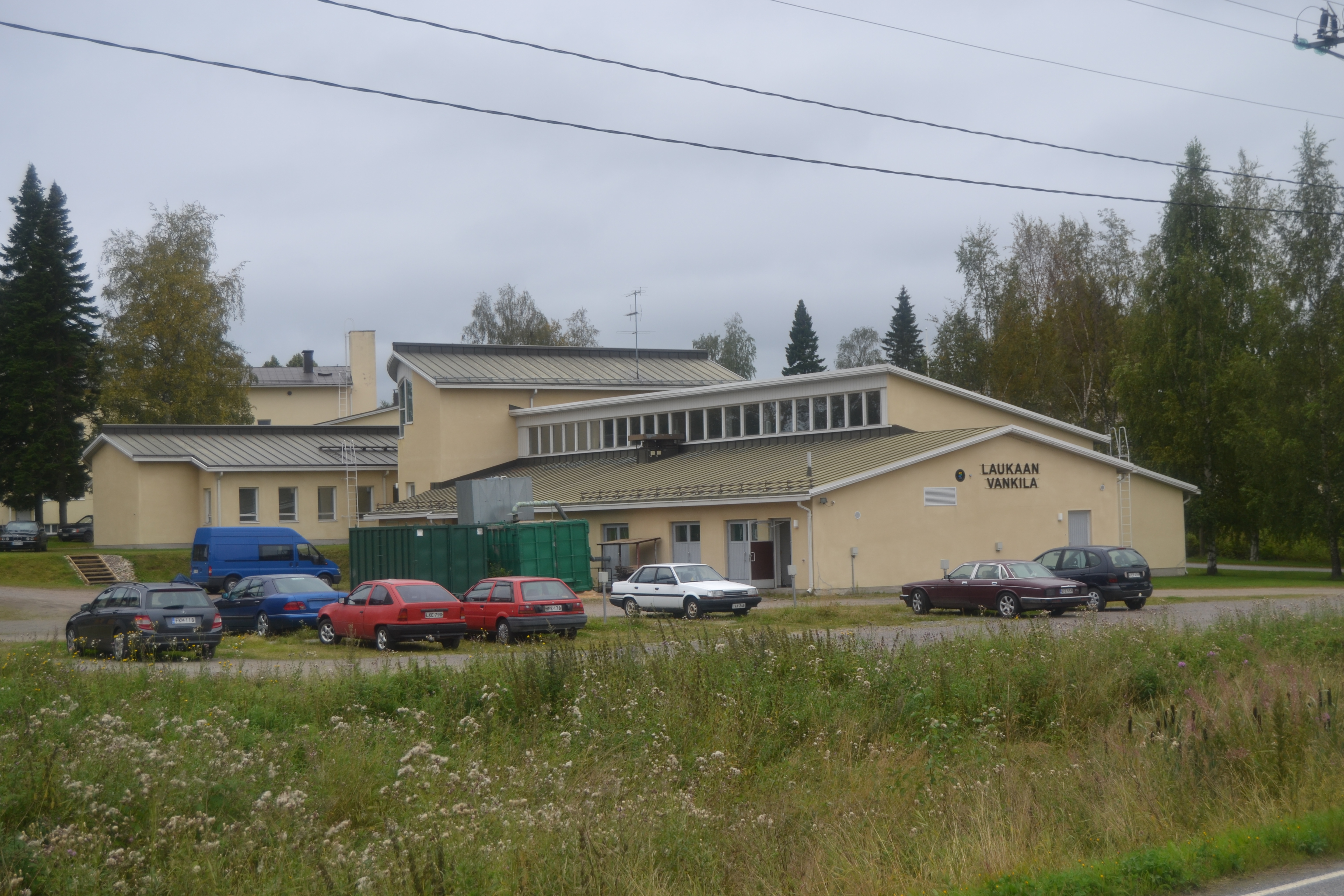 Laukaa prison in Finland